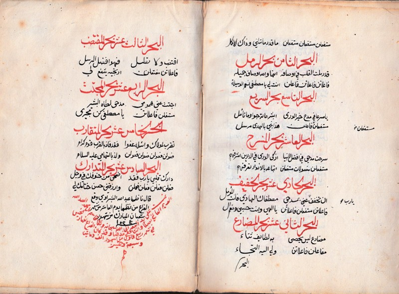 Old Manuscript in the Arabian poetry Beher, by Sheikh Abdullah Al-Shabrawi, and written by Qasim Effendi al mufti in 1841, page 3, 4